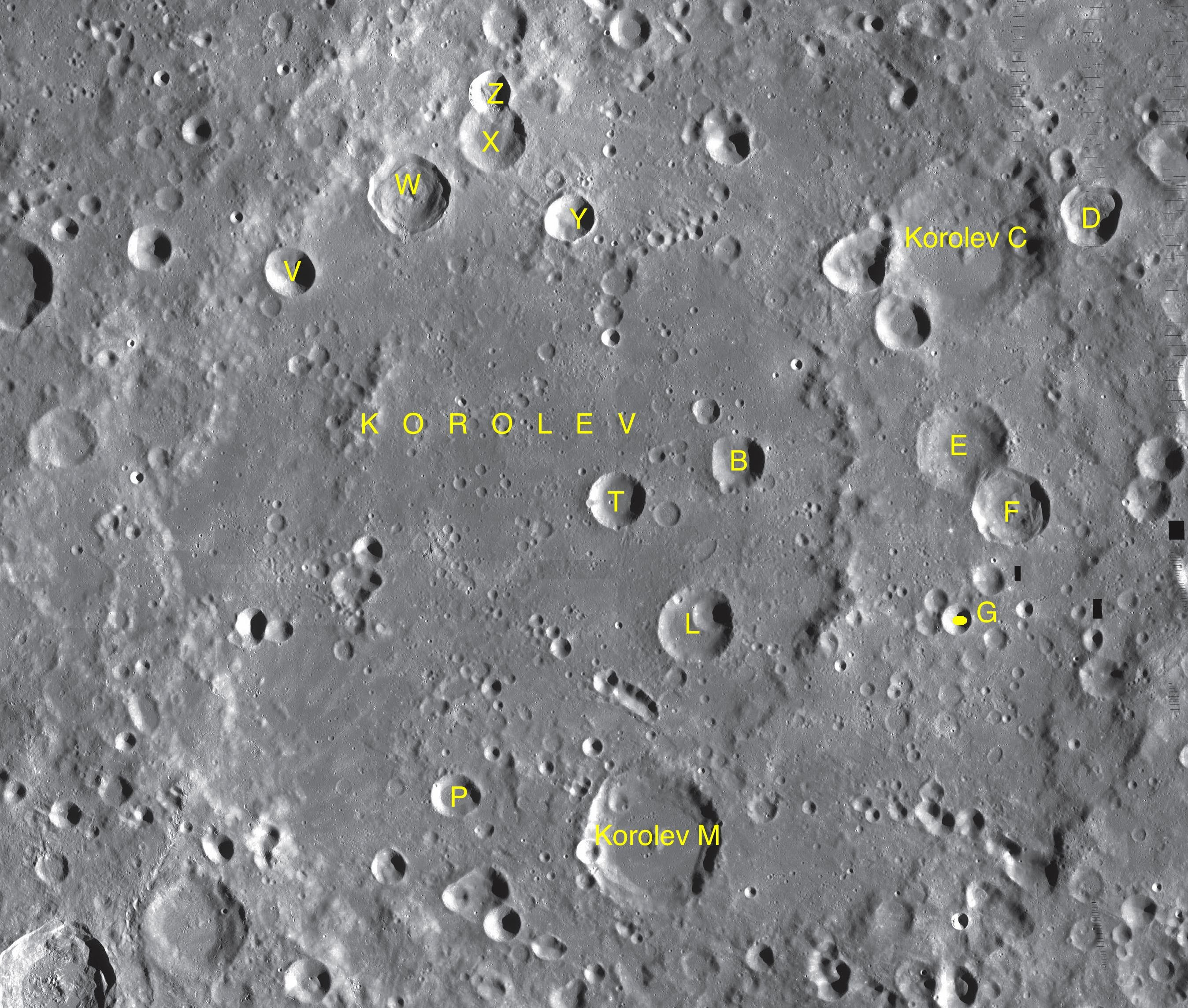 Parts of the charts LAC-69, LAC-87 used for the presentation